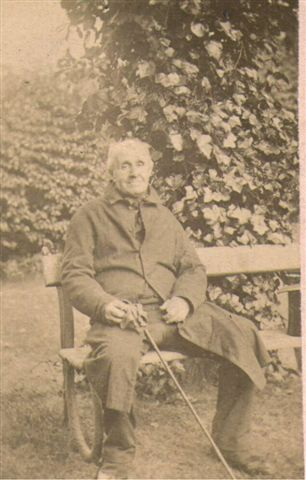 Photograph of John Badley, Surgeon of Dudley taken ca. 1865. Original photograph in personal archives of D C McJonathan